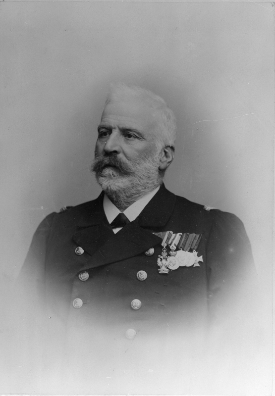 A photo of Marinekommandant Rudolf Montecuccoli